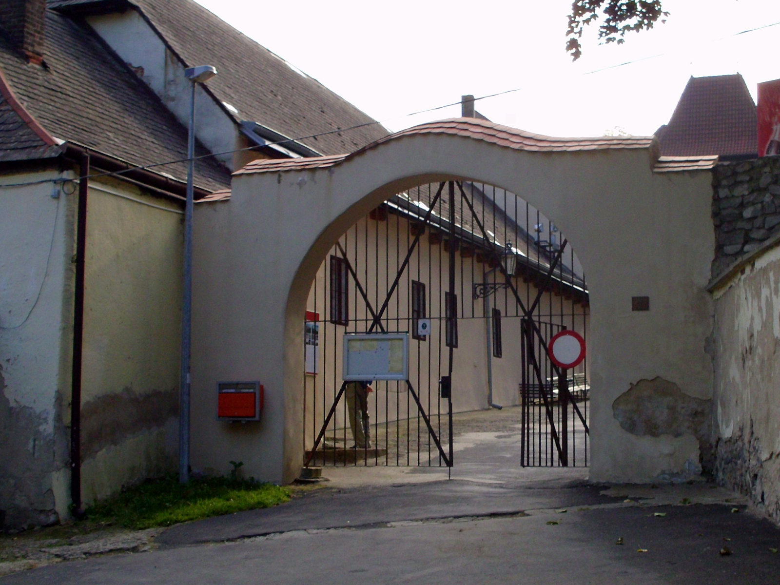 Ústí nad Labem